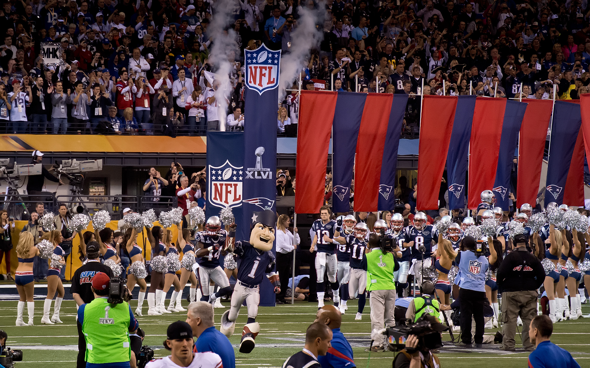 New England Patriots grand entrance